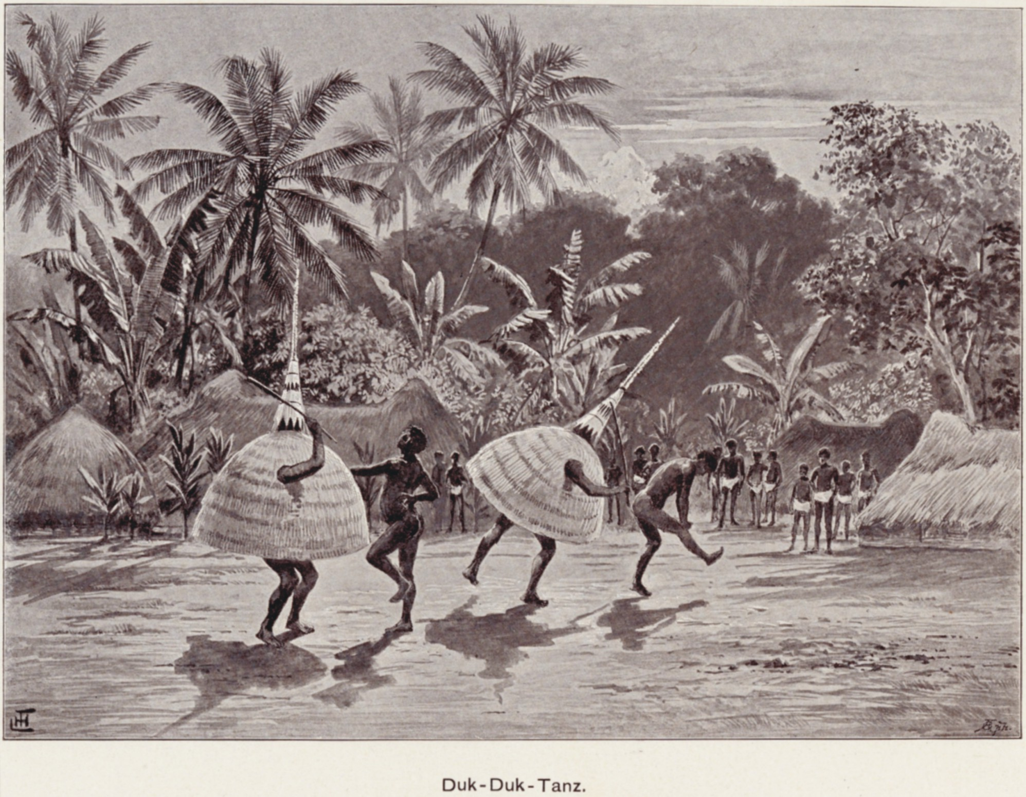 Tolai people, Gazelle Peninsula of New Britain, Papua New Guinea: Duk-Duk dancers; the Duk-Duk is a secret society of men, also present on neighbouring New Ireland Island (19th century; water color by Joachim Graf Pfeil, published 1899).